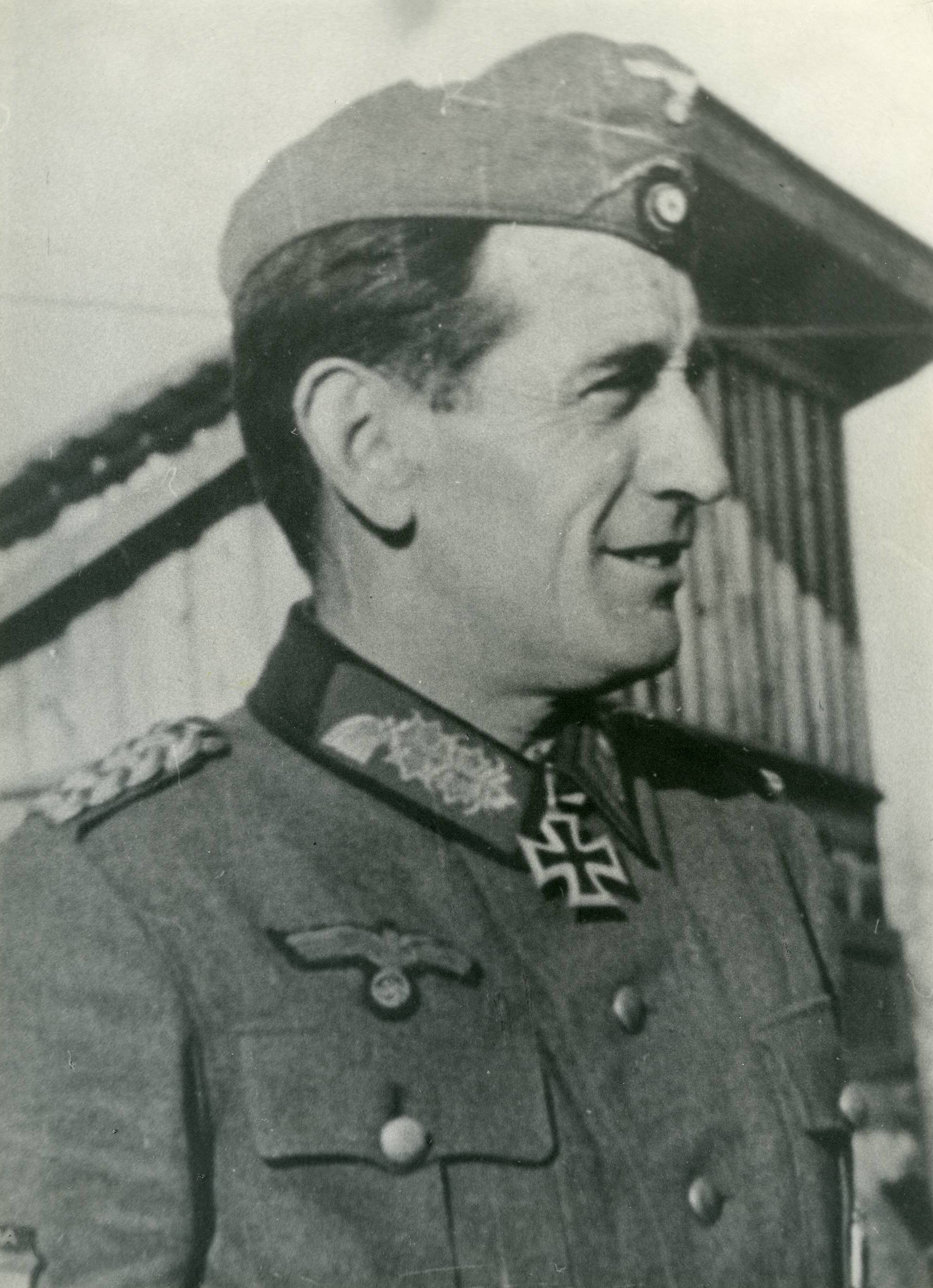 Portrait of the Spanish general Agustín Muñoz Grandes, commander at that time of the Blue Division, in German Army uniform